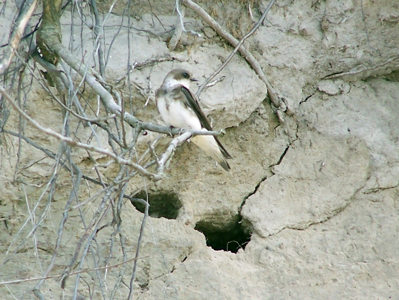 Riparia riparia. Picture taken in Dziwnówek, Poland on Baltic Sea cliff.